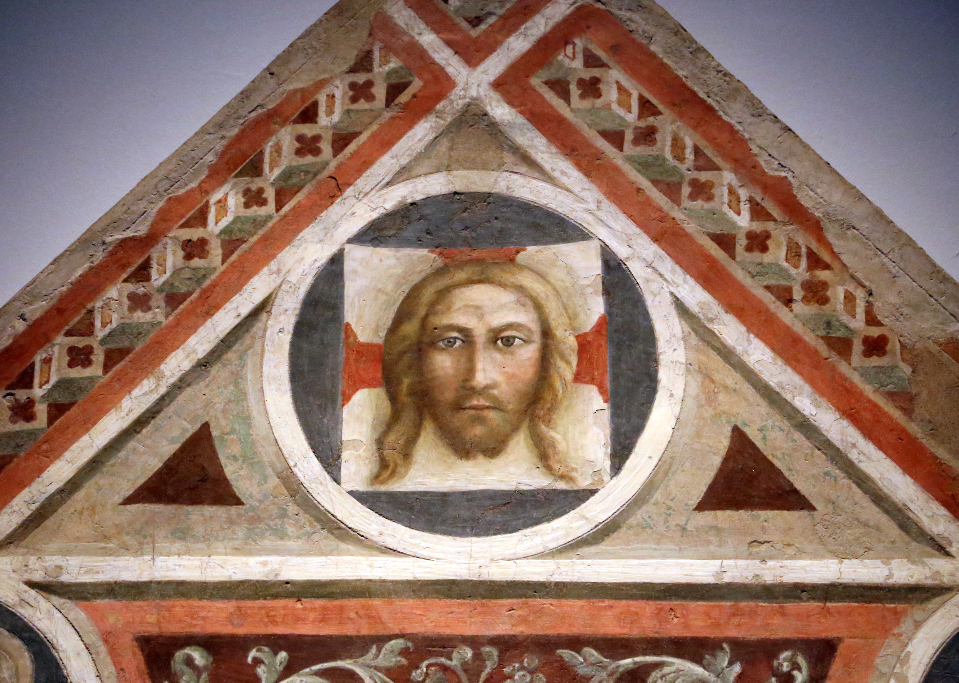 Pietà by Masolino